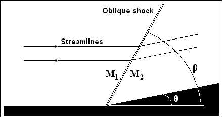 This picture can be used in part to describe the essential geometry and properties of an oblique shock wave.